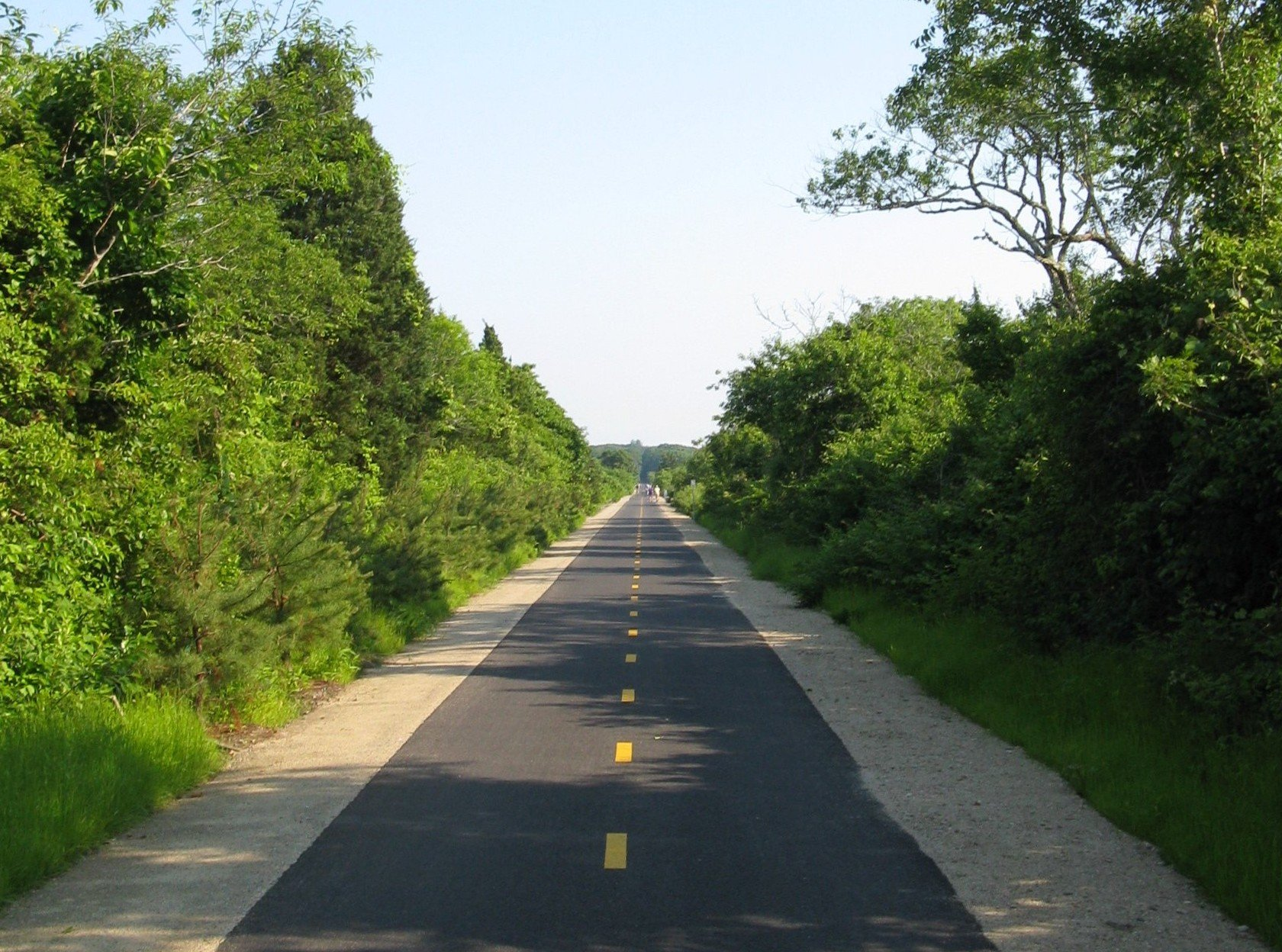 Shining Sea Bikeway, West Falmouth Massachusetts